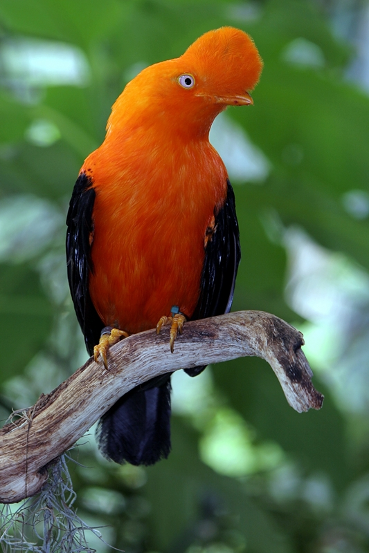 Andean Cock-of-the-rock (Rupicola peruviana). A male perching on a branch at San Diego Zoo, USA.